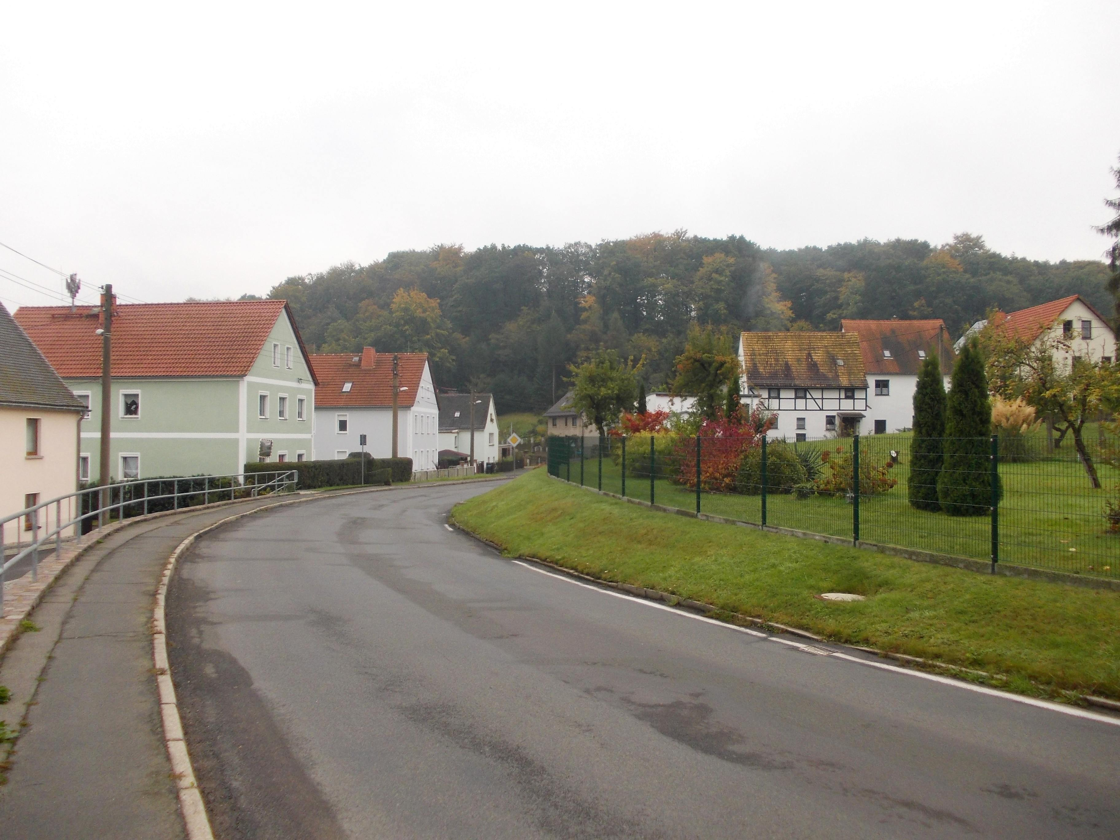 Nerchauer Landstrasse in Dorna (Grimma, Leipzig district, Saxony)